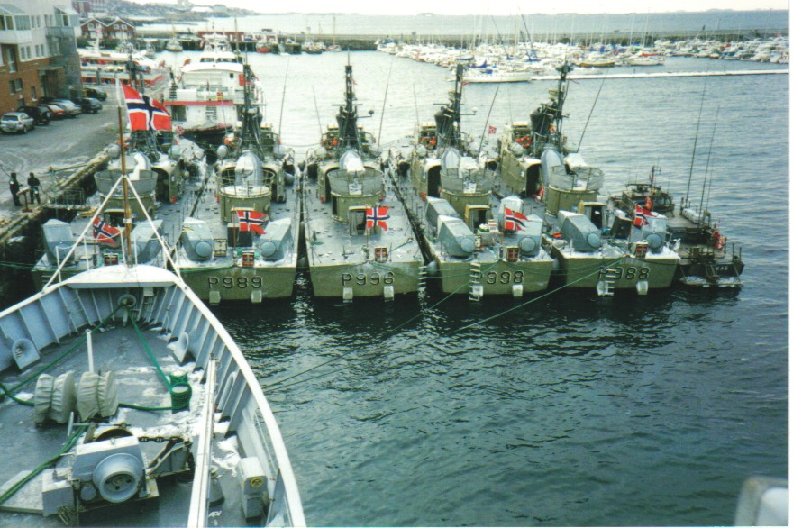 Five of the Hauk FBSs docked in 2001, seen from the deck of HNoMS Horten. On the right is a CB90-class fast assault craft.